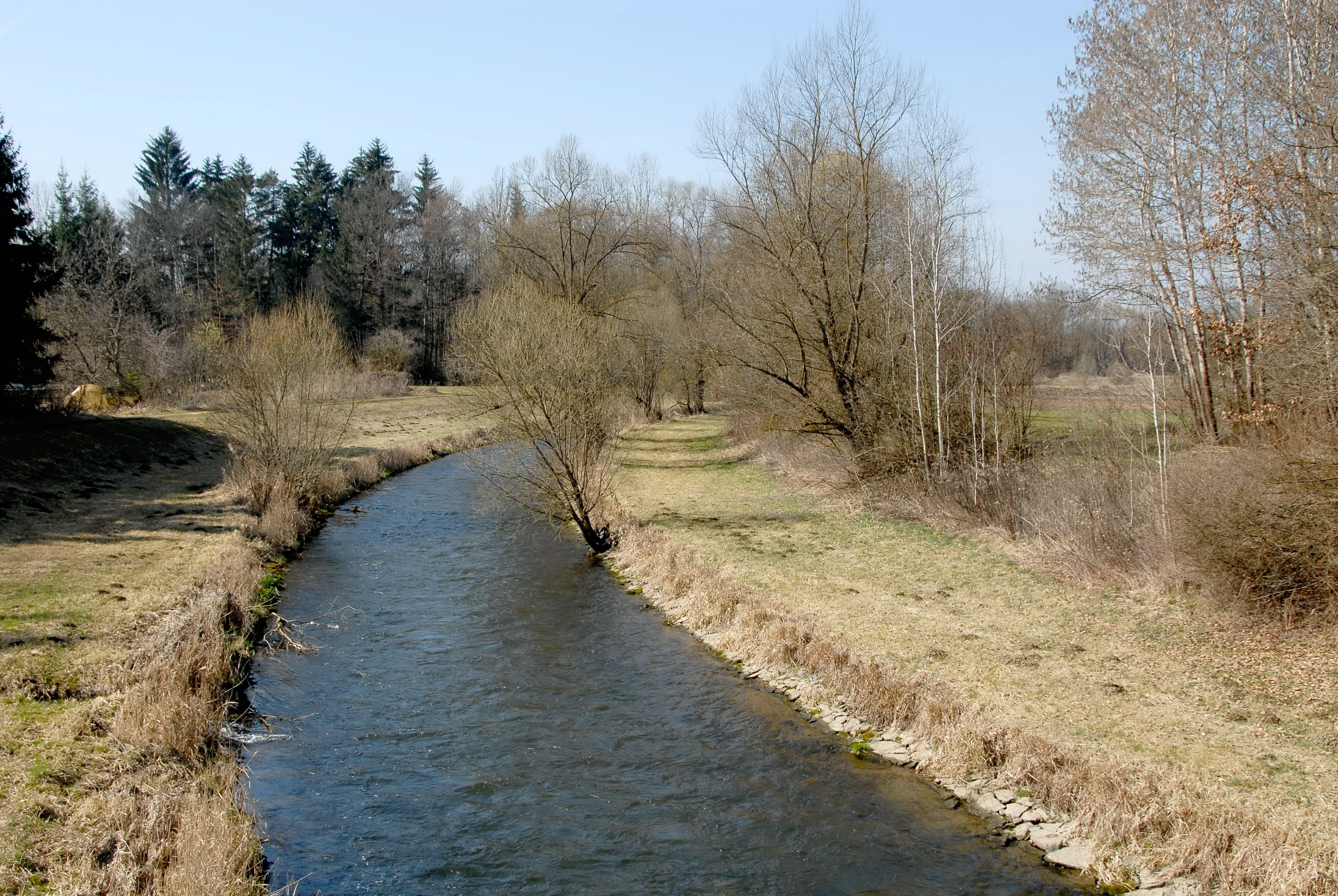 River Glan near the localities Gurnitz and Zetterei in the community of Ebenthal, Carinthia, Austria